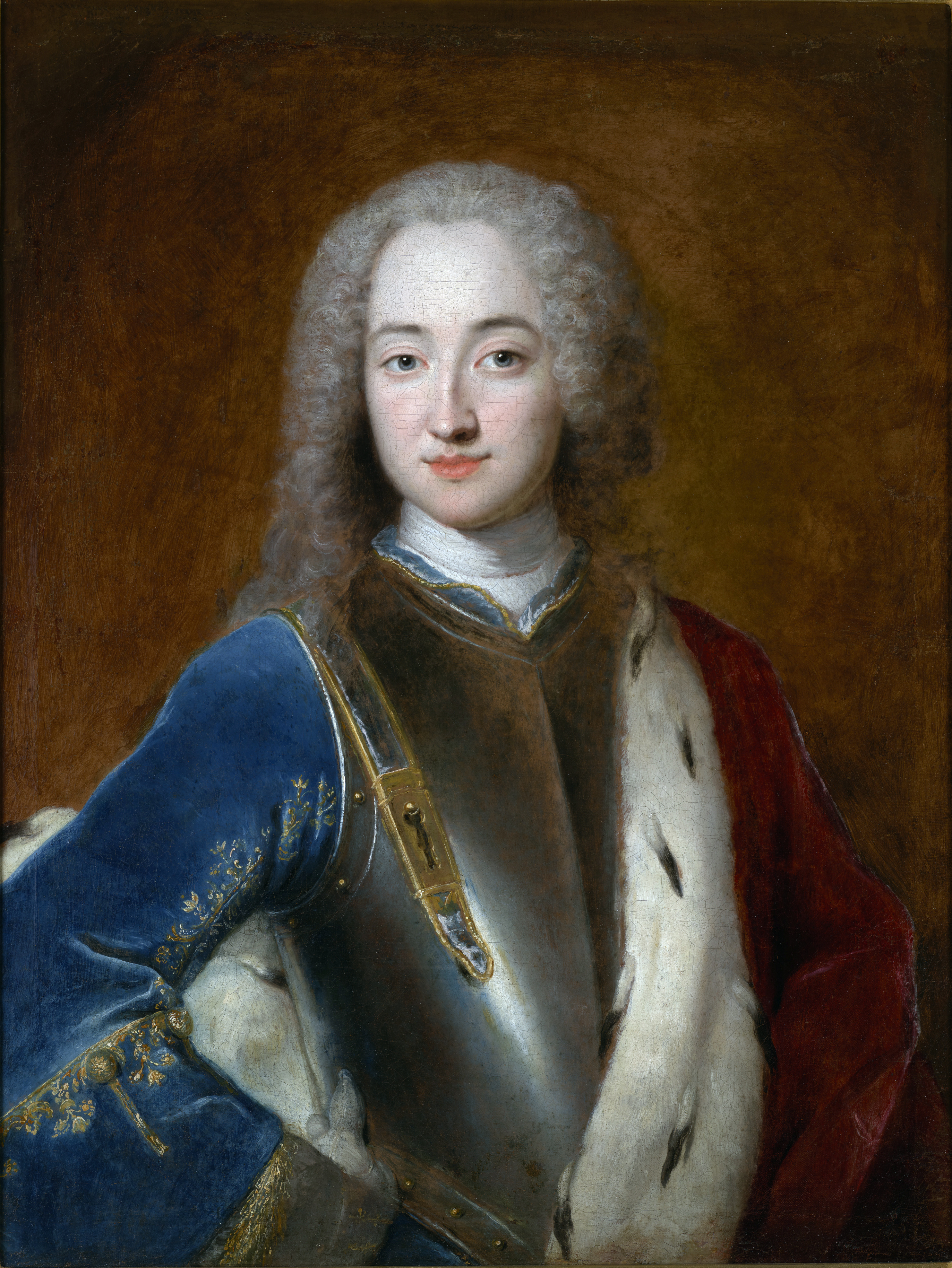 Portrait of Michał Fryderyk Czartoryski (1696-1775)